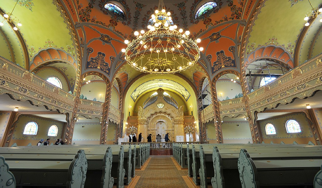 Interior of Synagogue in Subotica